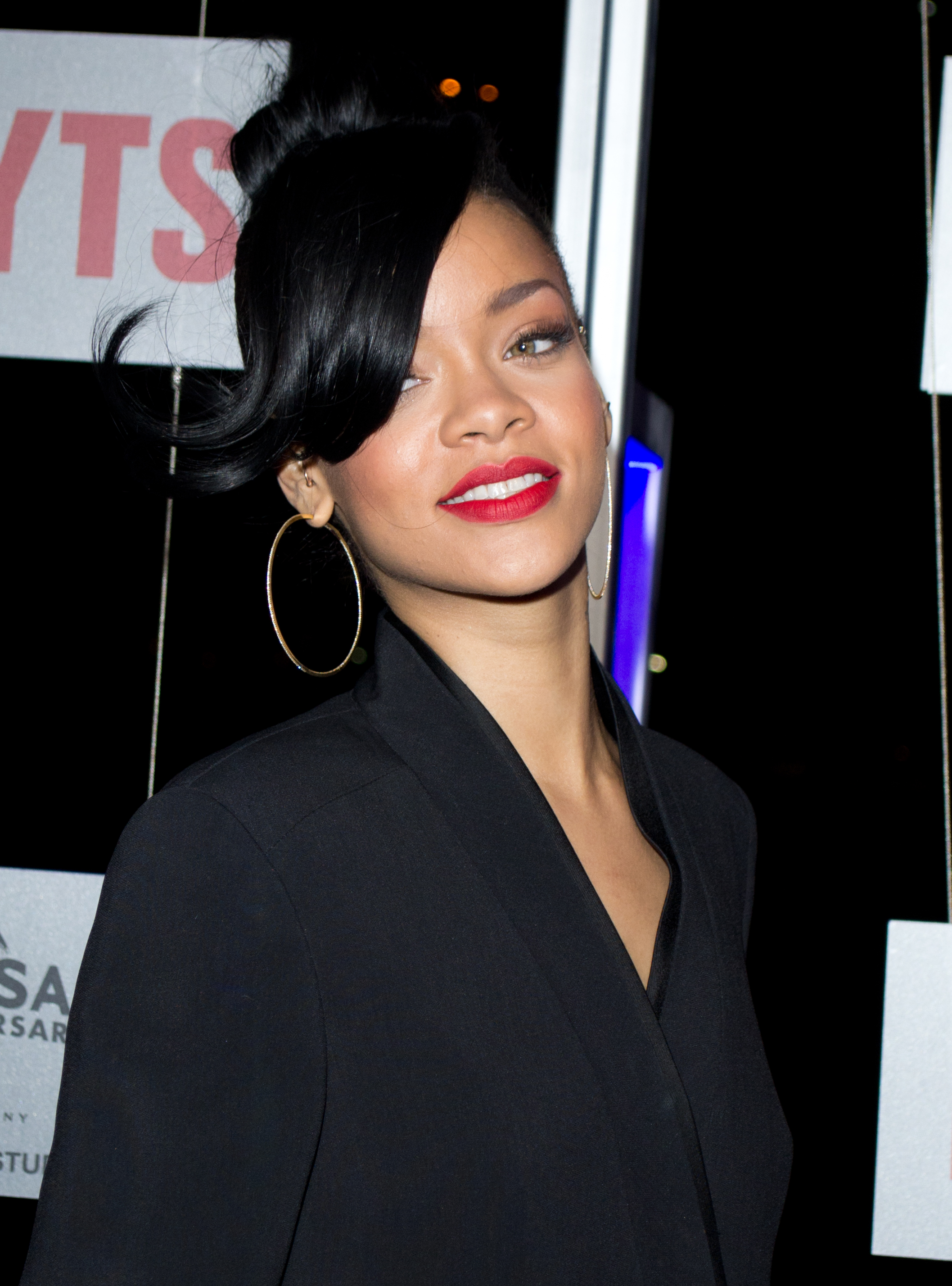 Recent image of Rihanna at the Sydney Premiere of Battleship